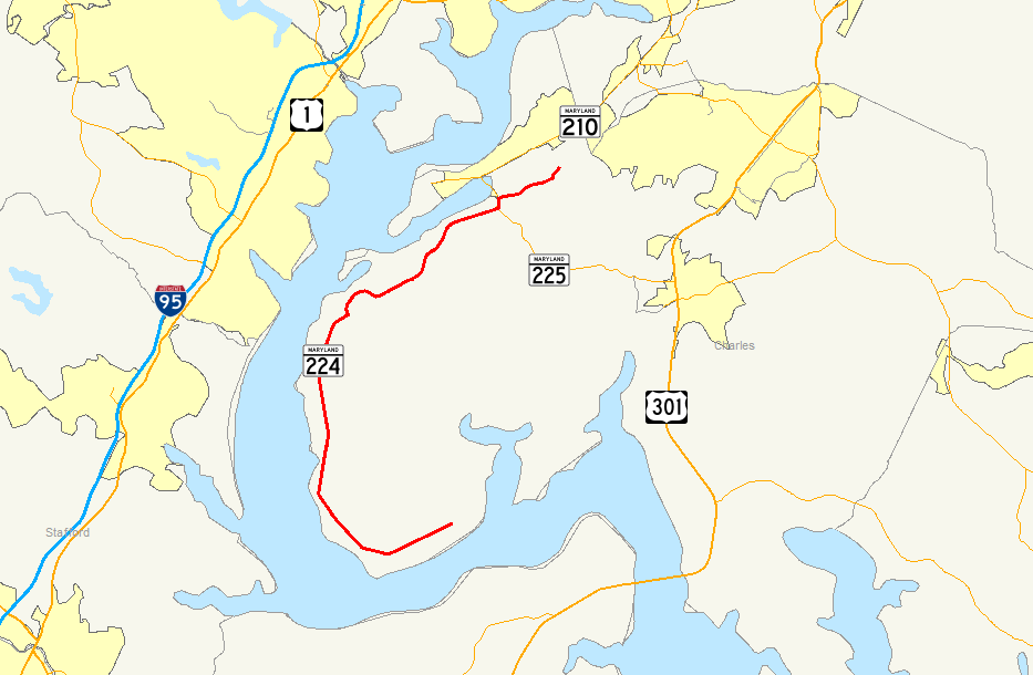 Map of Maryland Route 224